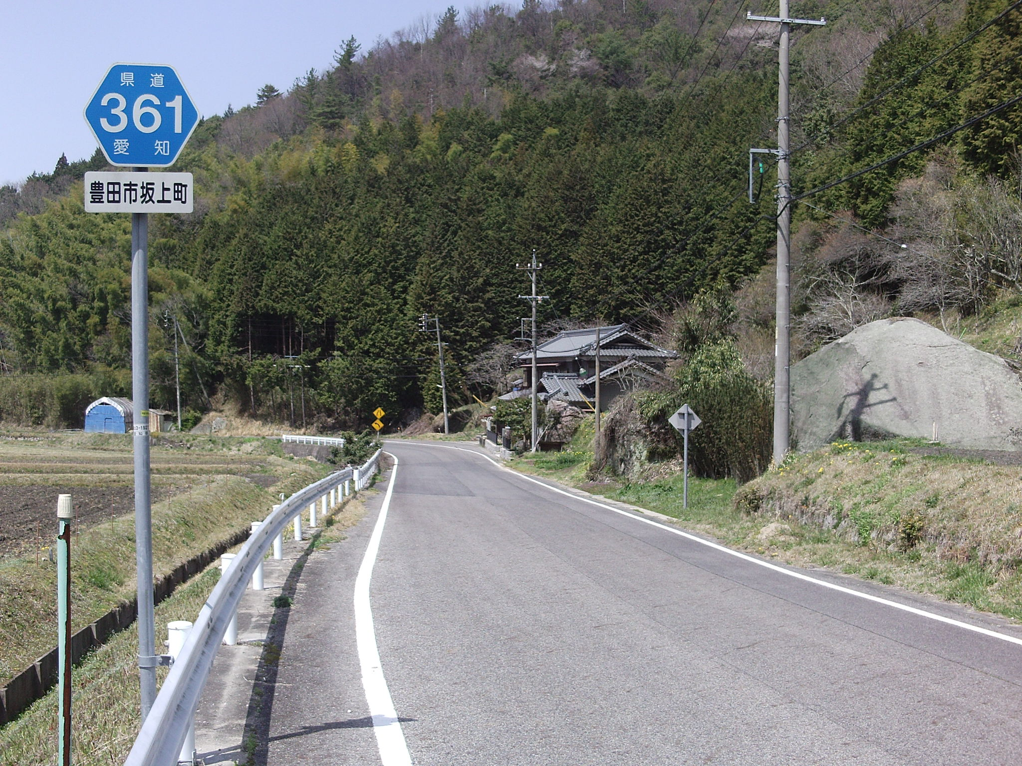 Aichi prefectural road No.361 in Sakauecho, Toyota, Aichi.